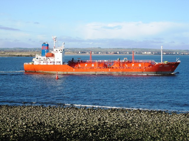 LPG Tanker leaving Teesport The LPG tanket "Lady Margaux" leaving Teesmouth on a low tide at 12.00 on Saturday, 7th November, 2009. High tides: 6.13 and 18.30. Low Tide: 12.30. The photograph was taken from the South Gare. Hartlepool can be seen in the background.